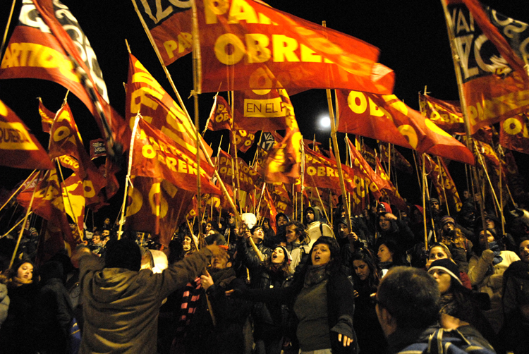 juventud del PO